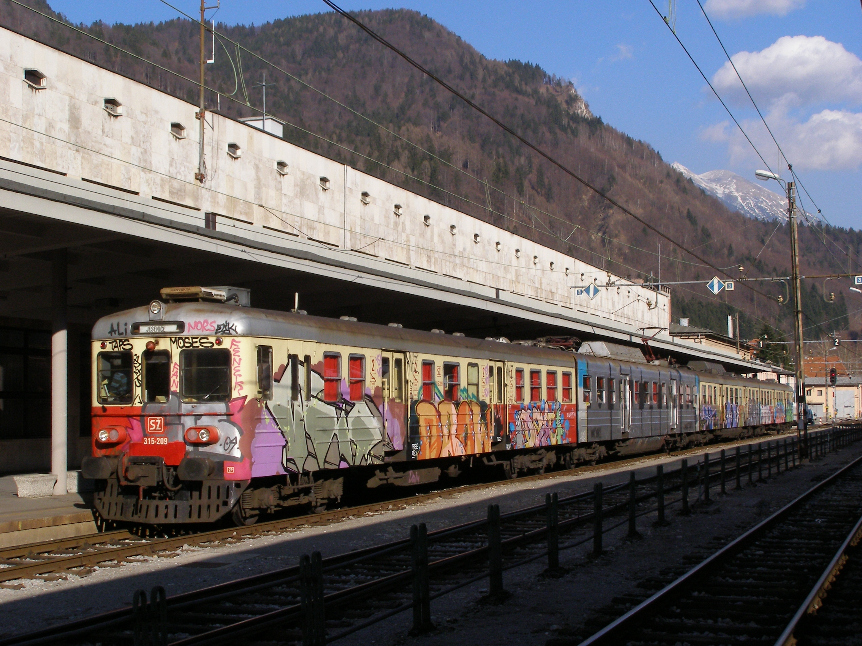 Jesenice - Slovenske železnice 315-209 electric multiple unit